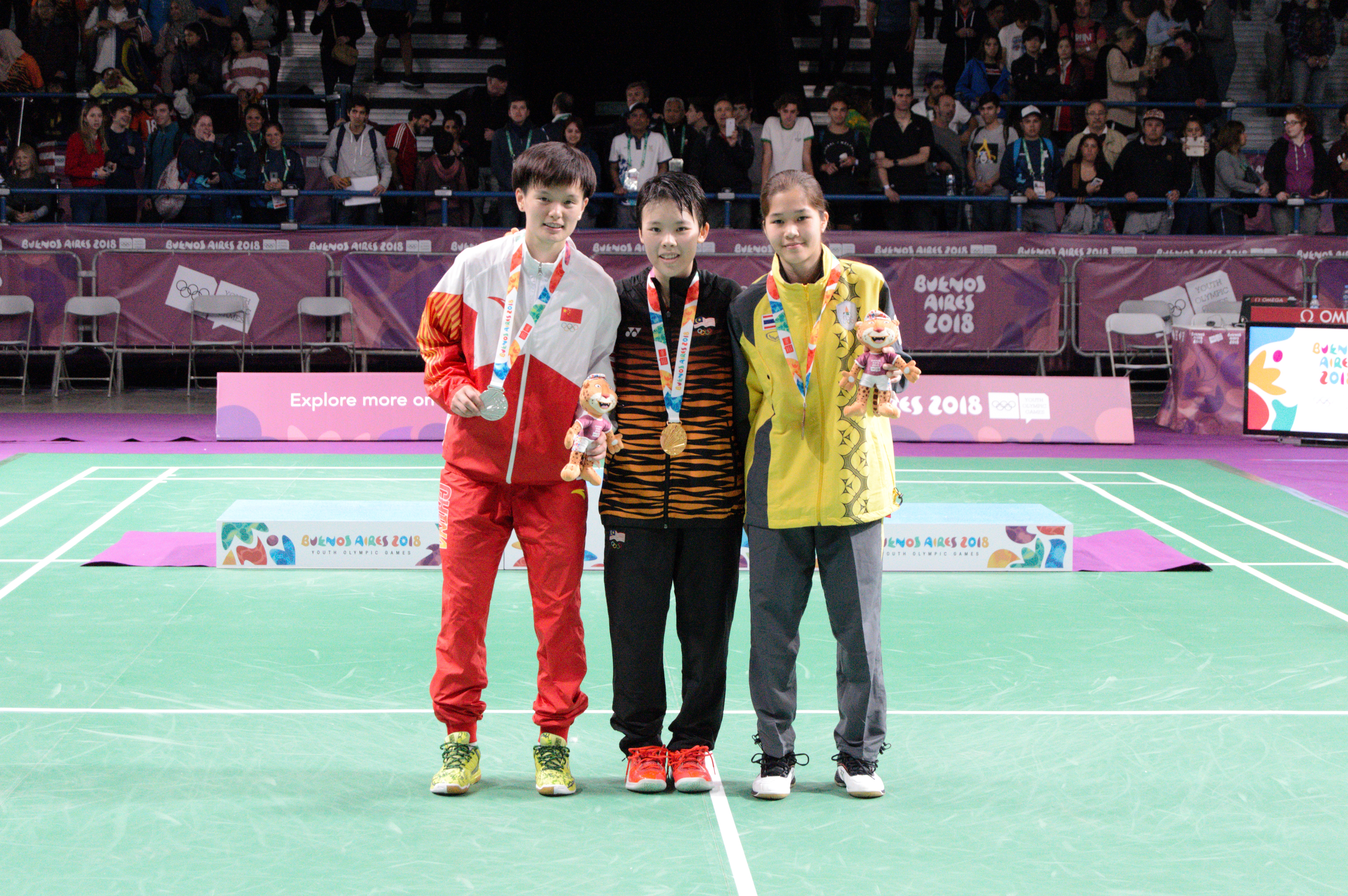 Victory ceremony of the girls singles badminton tournament of the 2018 Summer Youth Olympics.